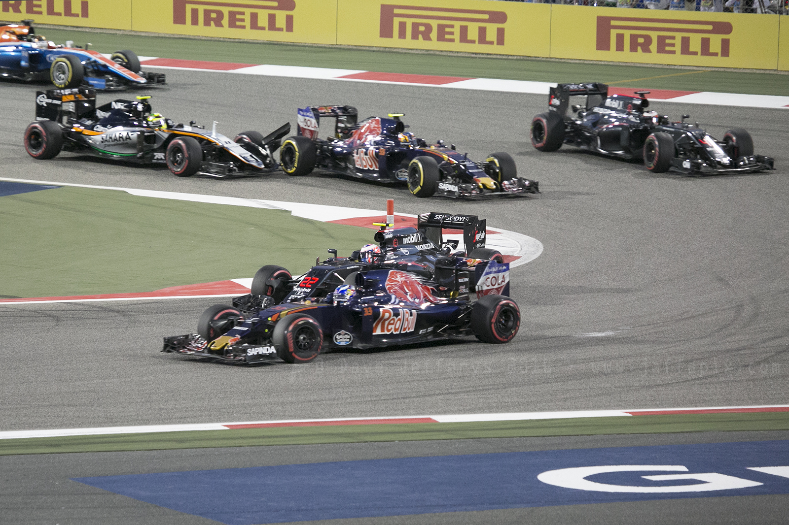 Racing at the 2016 Bahrain Grand Prix